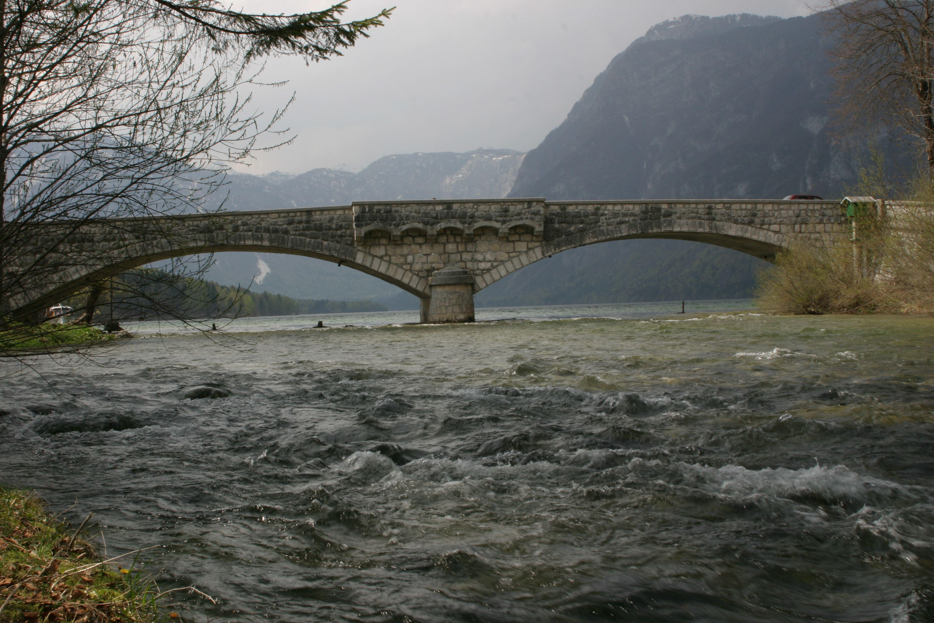 The outflow of Sava Bohinjka from Lake Bohinj